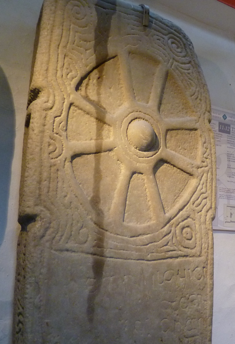 10th or 11th C cartwheel Cross, Possible deciphering of worn inscription: PETRI ILQUICI ... A CER ... HAN C CRUCEM ...T 'The cross of St Peter Ilquici erected this cross ? for the soul of ...'. Found at Cwrt Dafydd Farm, south of Margam and is now in the Margam Stones Museum nr Port Talbot.